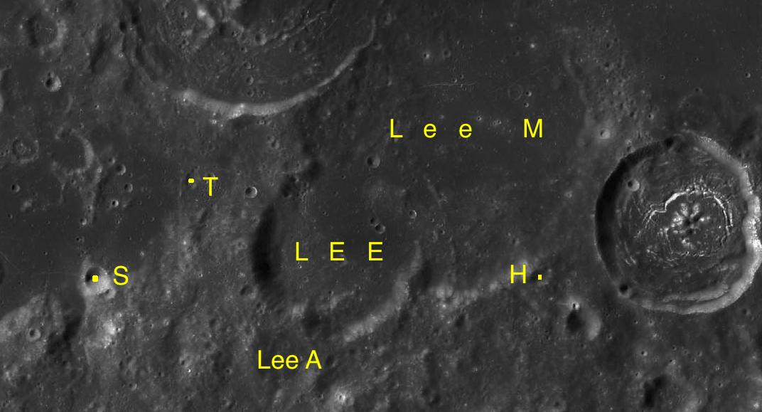 Part of the chart LAC-93 used for the presentation